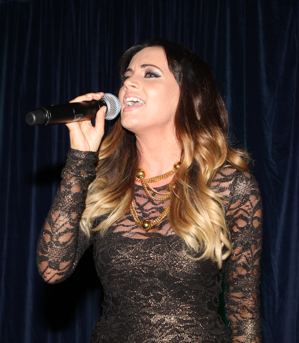 Criniti's celebrated their tenth birthday and rolled out the red carpet tonight.